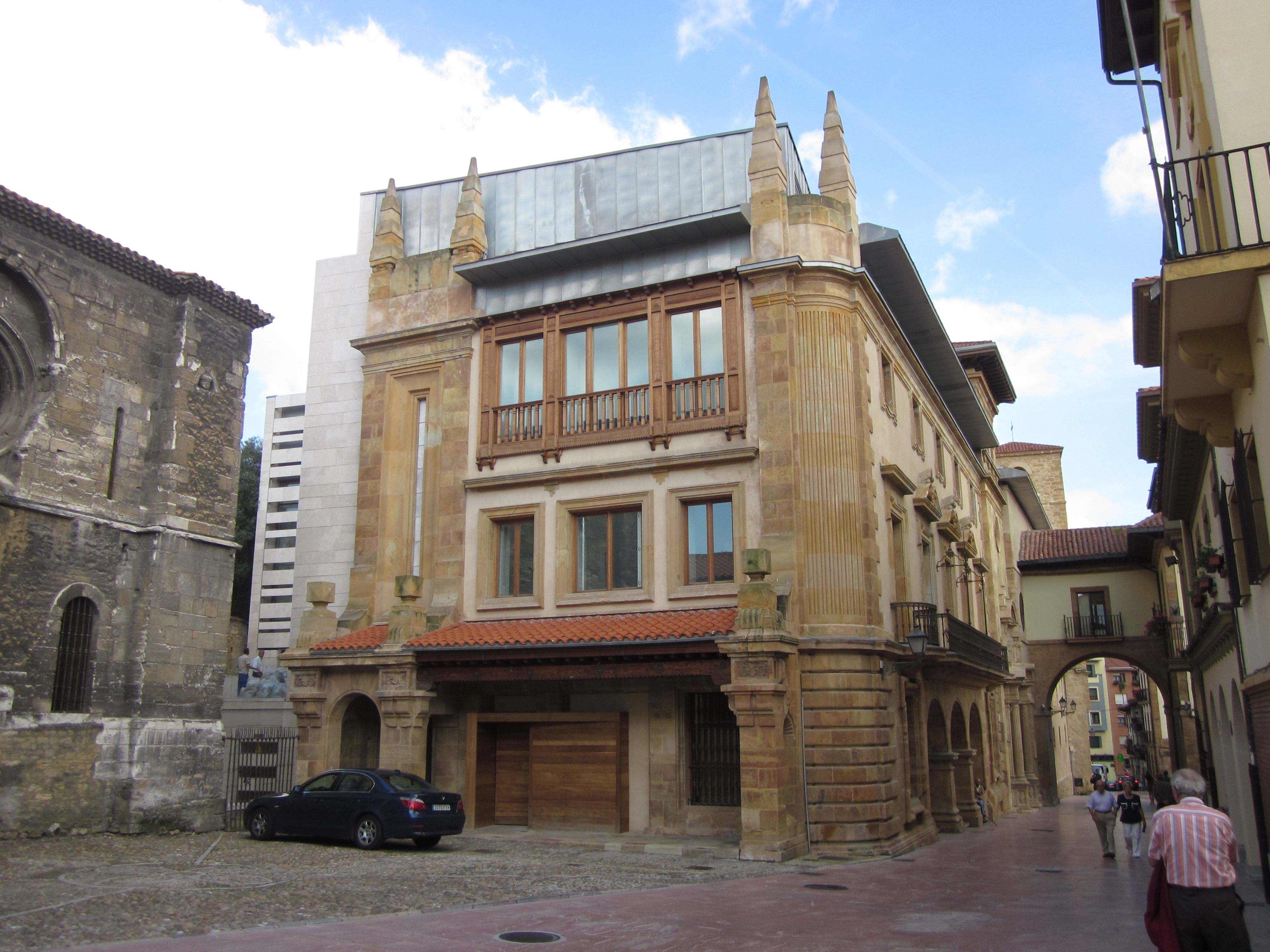 Arquaeological Museum of Asturias at Oviedo, Principality of Asturias, Spain.